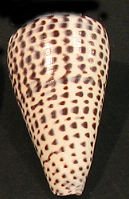 Abapertural view of Lithoconus leopardus Röding 1798 (attention: nec Conus leopardus (Dillwyn, L.W., 1817) = Rhizoconus vexillum sumatrensis (Hwass, C.H. in Bruguière, J.G., 1792)